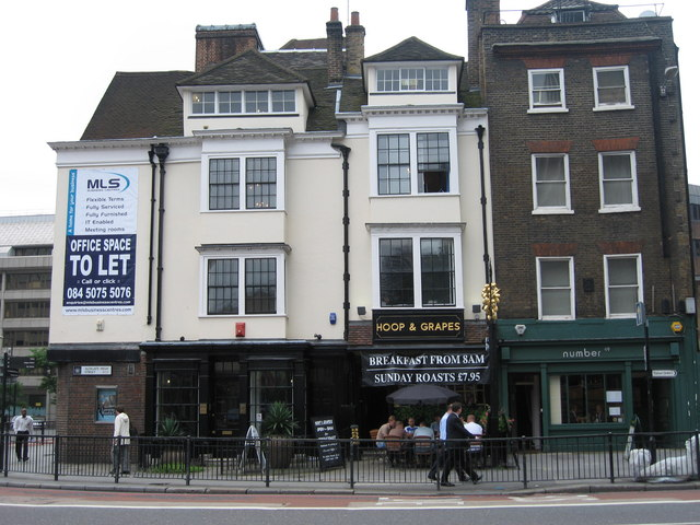 Hoop and Grapes - London's Oldest Pub? Alleged to be the oldest surviving pub in London, the Hoop and Grapes pub is in Aldgate High Street. The foundations date from the 13th century and the present building was built in the 1600s, one of the few to survive the Great Fire of 1666.